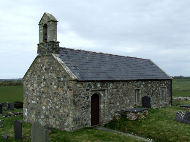 Bodwrog Church Bodwrog Church Between Gwalchmai and Llynfaes